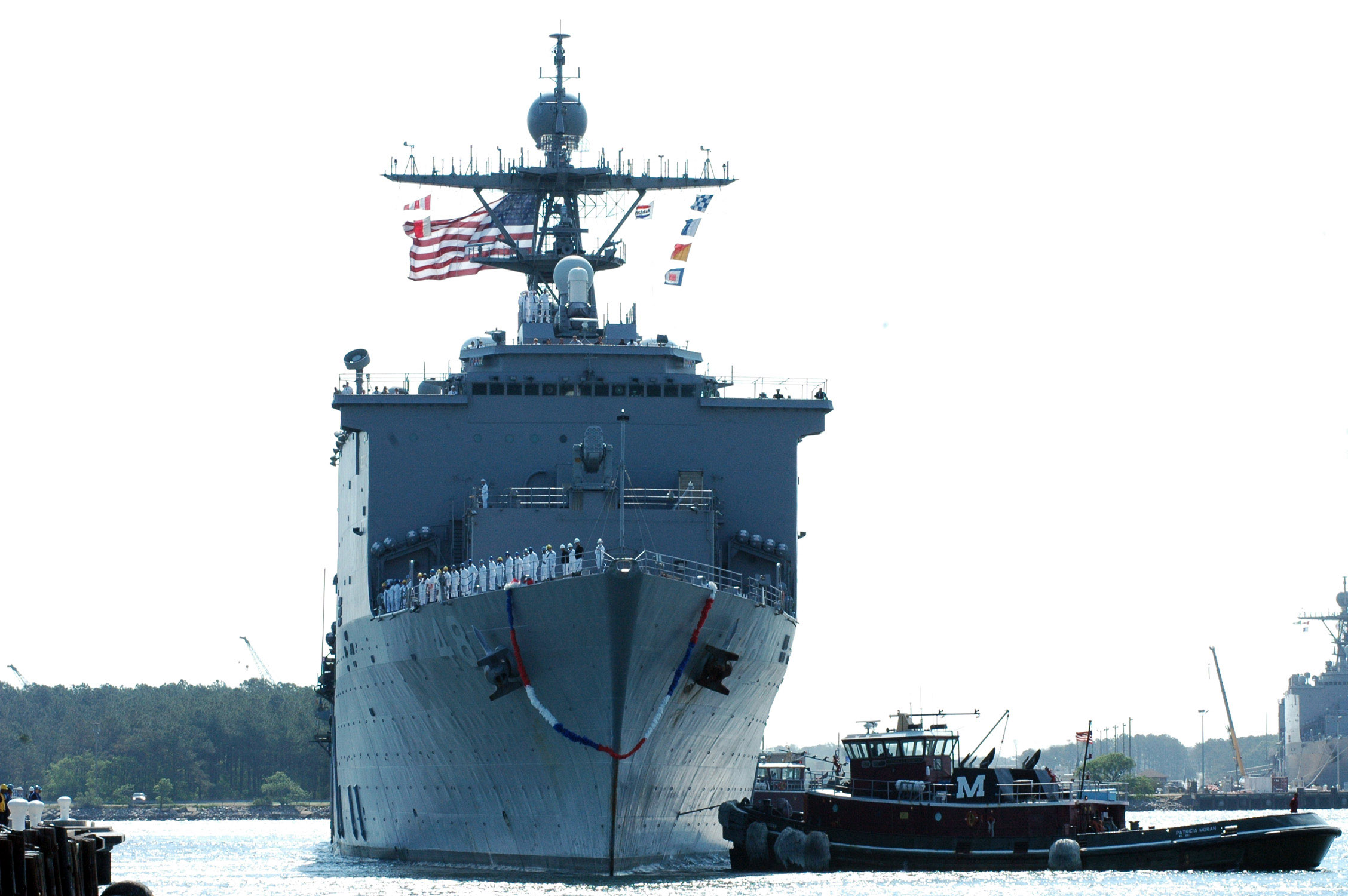 070516-N-2456S-059 VIRGINIA BEACH, Va. - Sailors assigned to the Whidbey Island-class dock landing ship USS Ashland (LSD 48) man the rails as the ship pulls into Naval Amphibious Base Little Creek after a six-month deployment. Ashland returned home after acting as an Afloat Staging Base and maintained sustained combat operations in support of the global war on terrorism.